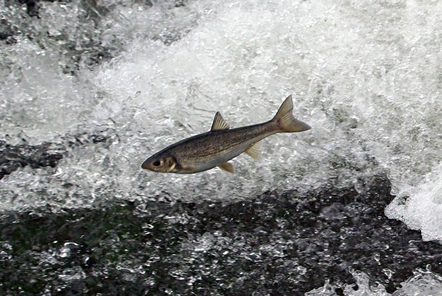 Pseudochondrostoma duriense